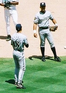 Secretary Mel Martinez on visit to Miami, Florida for speeches, meetings, tours, including appearance at breakfast hosted by Cuban-American leaders; and appearance at Pro Players Stadium to throw out the first pitch at a Florida Marlins baseball game, to meet and greet group of 40 Miami Housing Authority children, and to attend a Catholic Charities USA reception.